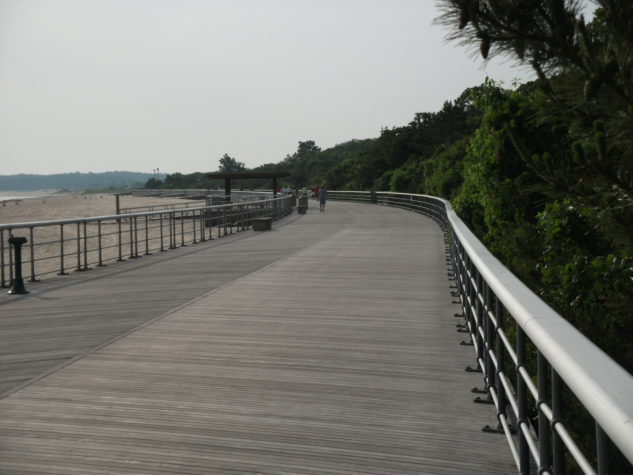 Promenade an the beach in the Sunken Meadow State Park